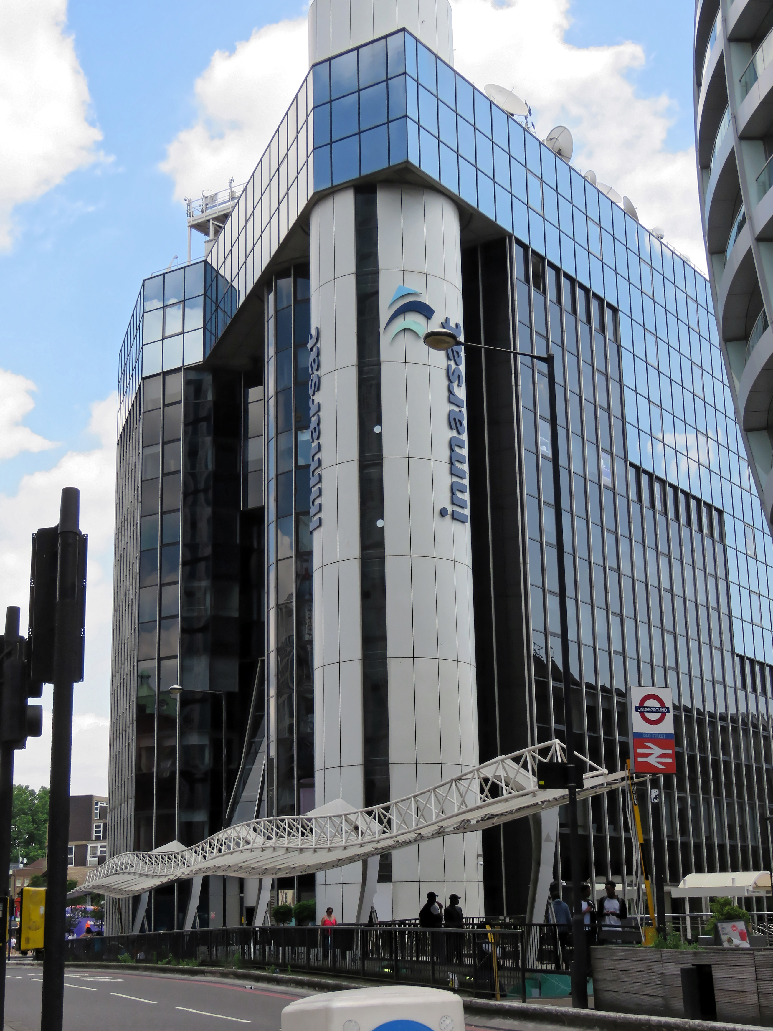 Inmarsat Global HQ at 99 City Road (A501), on the Old Street Roundabout in the Borough of Islington, London EC1.Camera: Canon PowerShot SX60 HSSoftware: File lens-corrected, optimized, perhaps cropped, with DxO OpticsPro 11 Elite, and likely further optimized with Adobe Photoshop CS2.